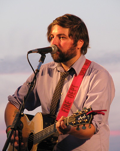 Rick Barry opening for Red Wanting Blue at the Songwriters in The Park series, sponsored by Brookdale Public Radio (90.5 The Night), on August 24, 2012.